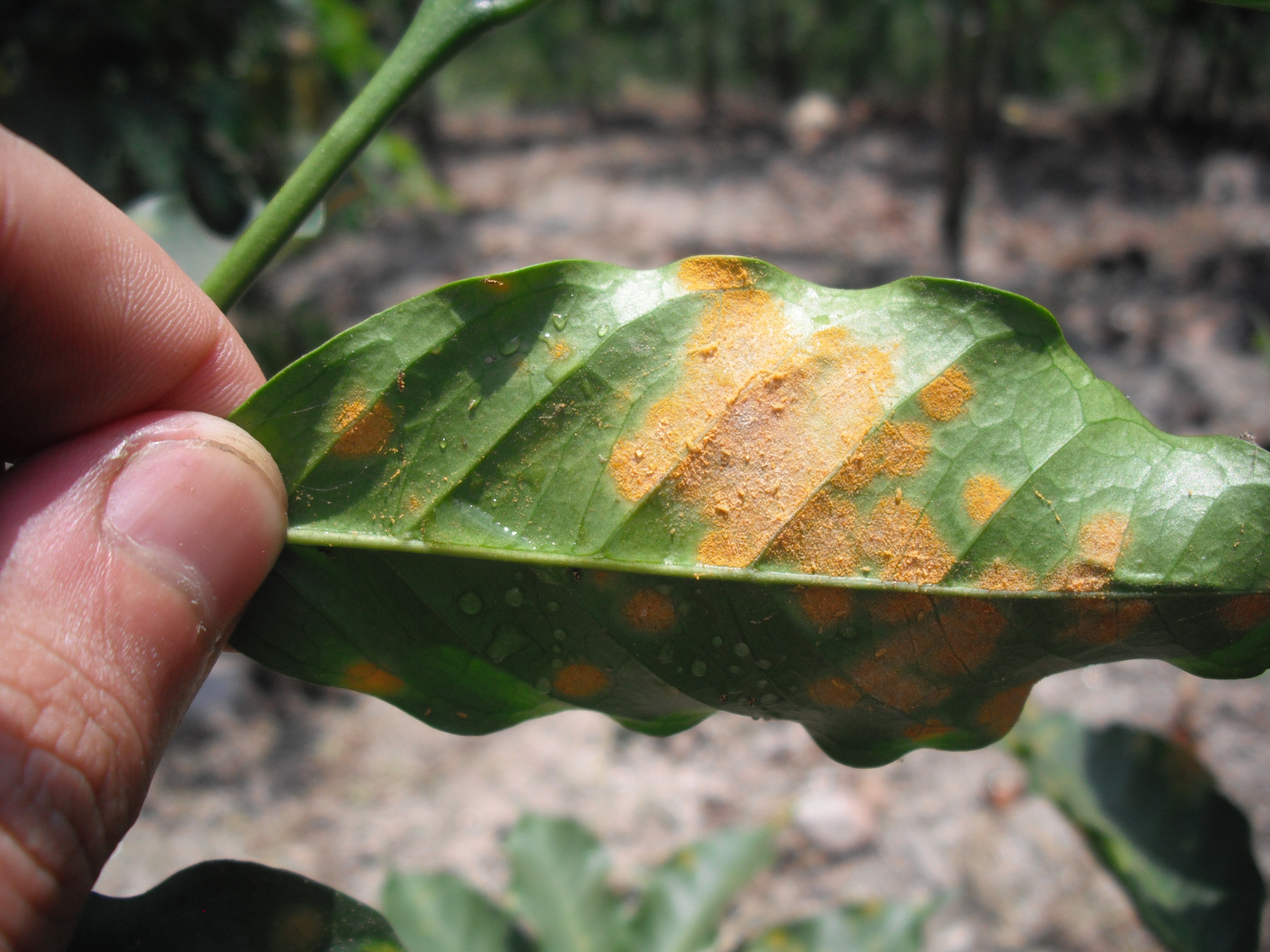 A photograph of a coffee leaf infected by Hemileia vastatrix - coffee leaf rust. Some small insects are also visible. Photographed in NW Rwanda in July 2011.